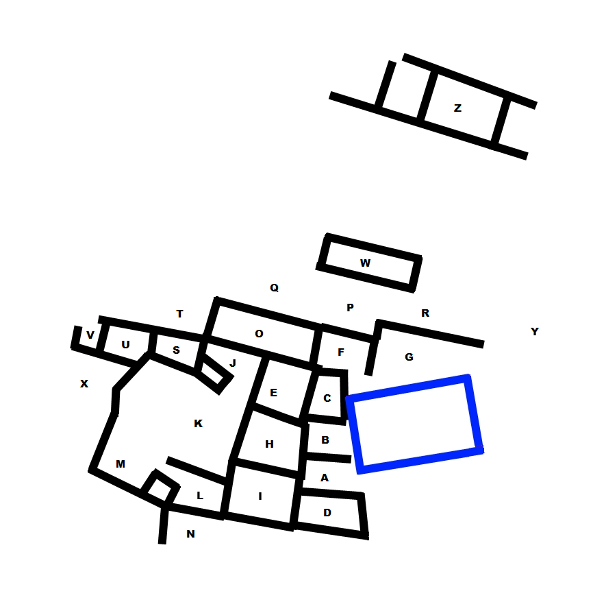 Methana, Greece: Plan of the Archaeological Site of Agios KonstantinosBlack: Mycenaean wallsBlue: Church of Agios KonstantinosA-Z: Rooms of the mycenaean sanctuary